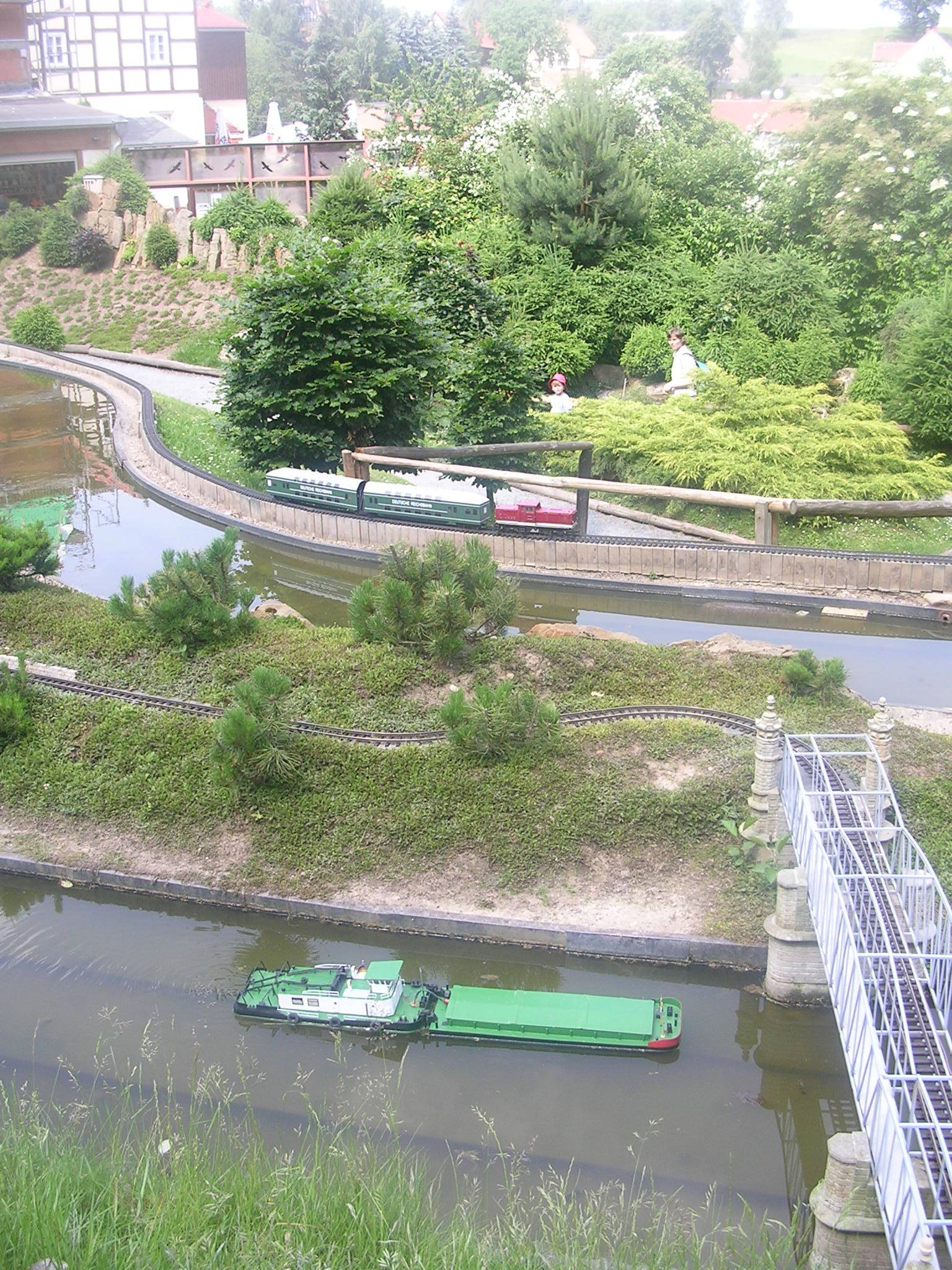 Little Saxon Switzerland is a park in Dorf Wehlen (Stadt Wehlen, Saxony, Germany) with models of buildings, nature und transport of Saxon Switzerland.